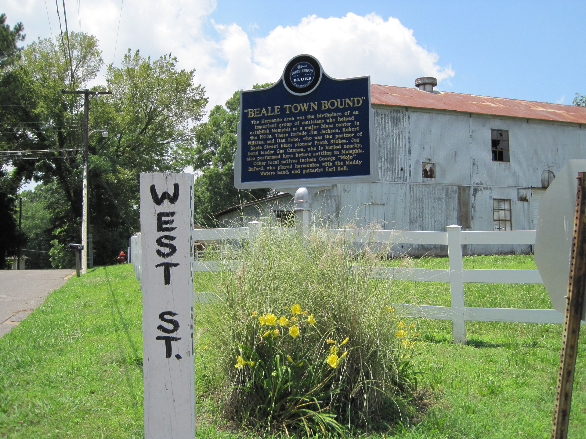 Beale Town Bound Blues Trail Marker in Hernando, Mississippi